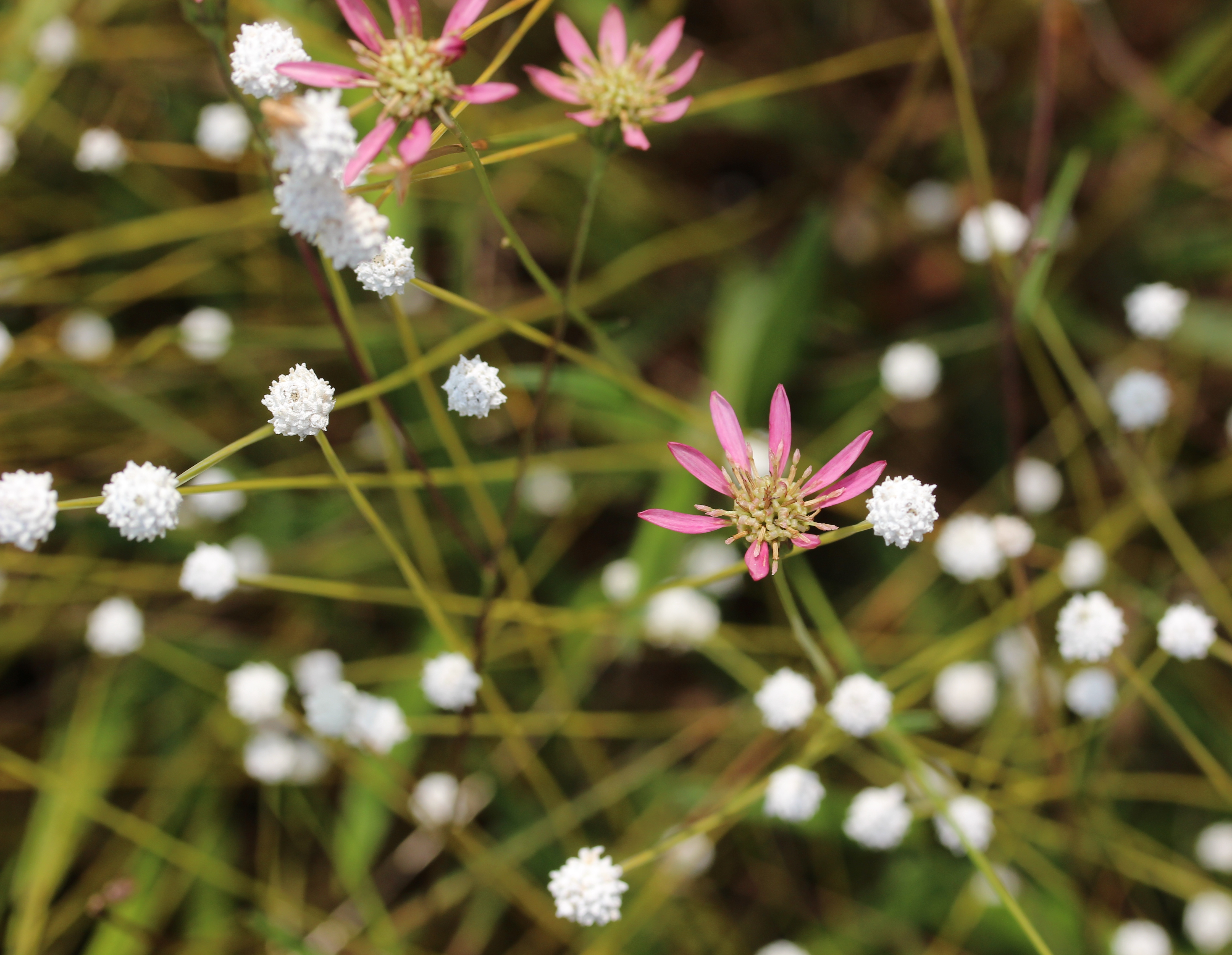 Flower of Aster rugulosus and Eriocaulon nudicuspe, in Aichi Prefecture Shinrin Park, Japan.